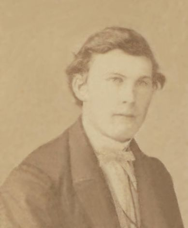 William Redish Pywell, albumen silver, CDV self portrait